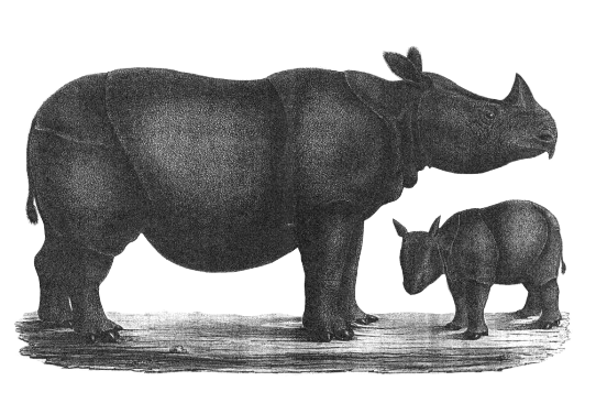 Rhinoceros sondaicus, male and young female, drawn by H. Schlegel and engraved by J.M.Kierdorff.